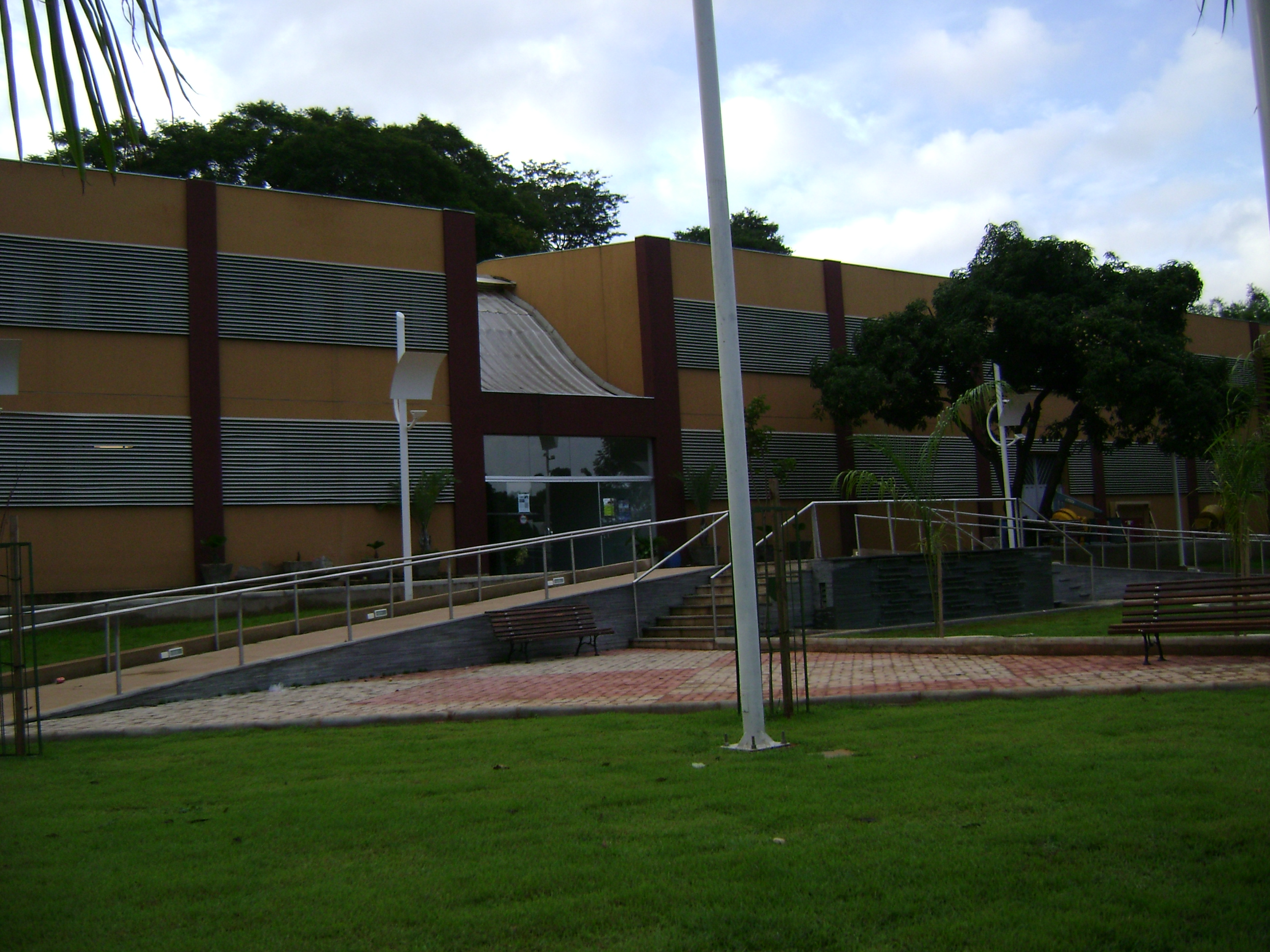 Square of Cefet-MG campus II in the front of building 12.